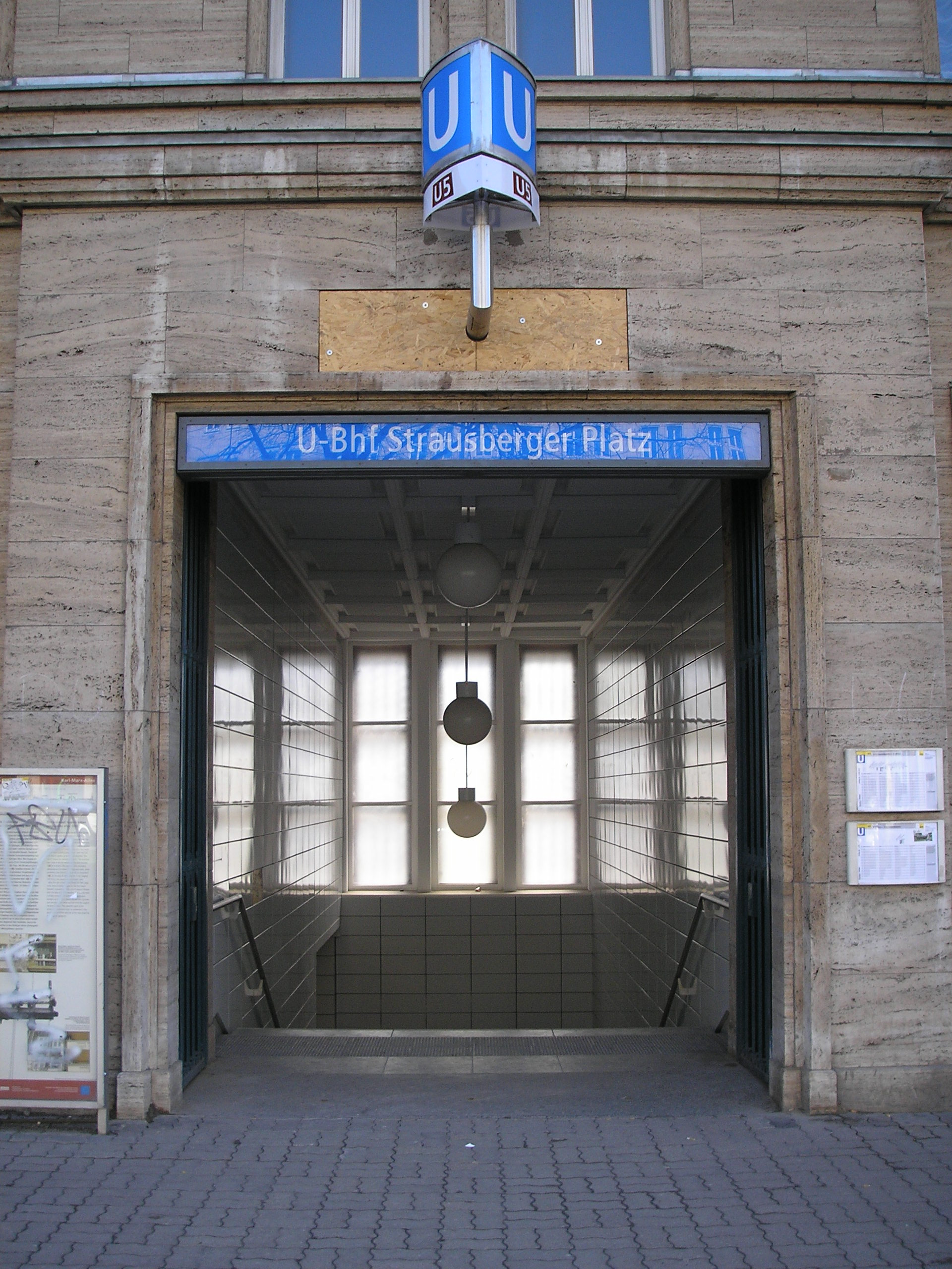 View off Strausberger Platz subway-station at Block B North on Karl-Marx-Allee in Berlin.